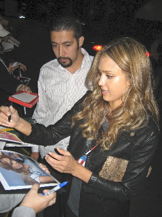 Jessica Alba at the Toronto Film Festival 2007